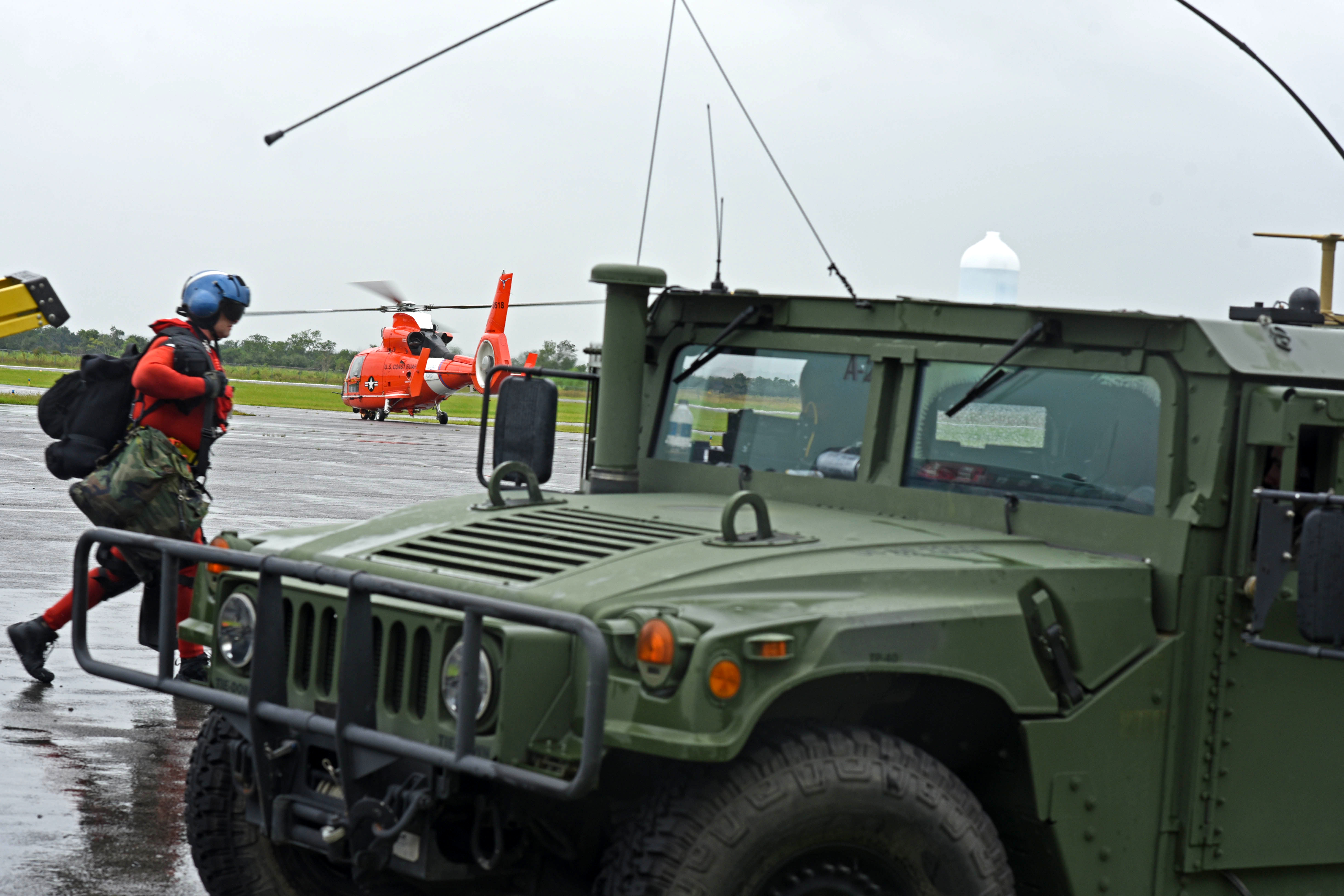 A Coast Guard rescue swimmer walks past a Louisiana Air National Guard Humvee during joint operations while responding to Tropical Storm Harvey in Sulphur, Louisiana, August 30, 2017. The 122nd Air Support Operations Squadron is supporting communications with U.S. Coast Guard and Marine Reserve aviation units to rescue residents stranded by severe flooding caused by the storm. (U.S. Army National Guard photo by Sgt. Garrett L. Dipuma)